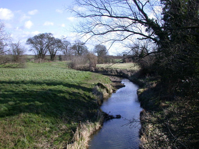 Bourn Brook from Barton Bridge View looking east